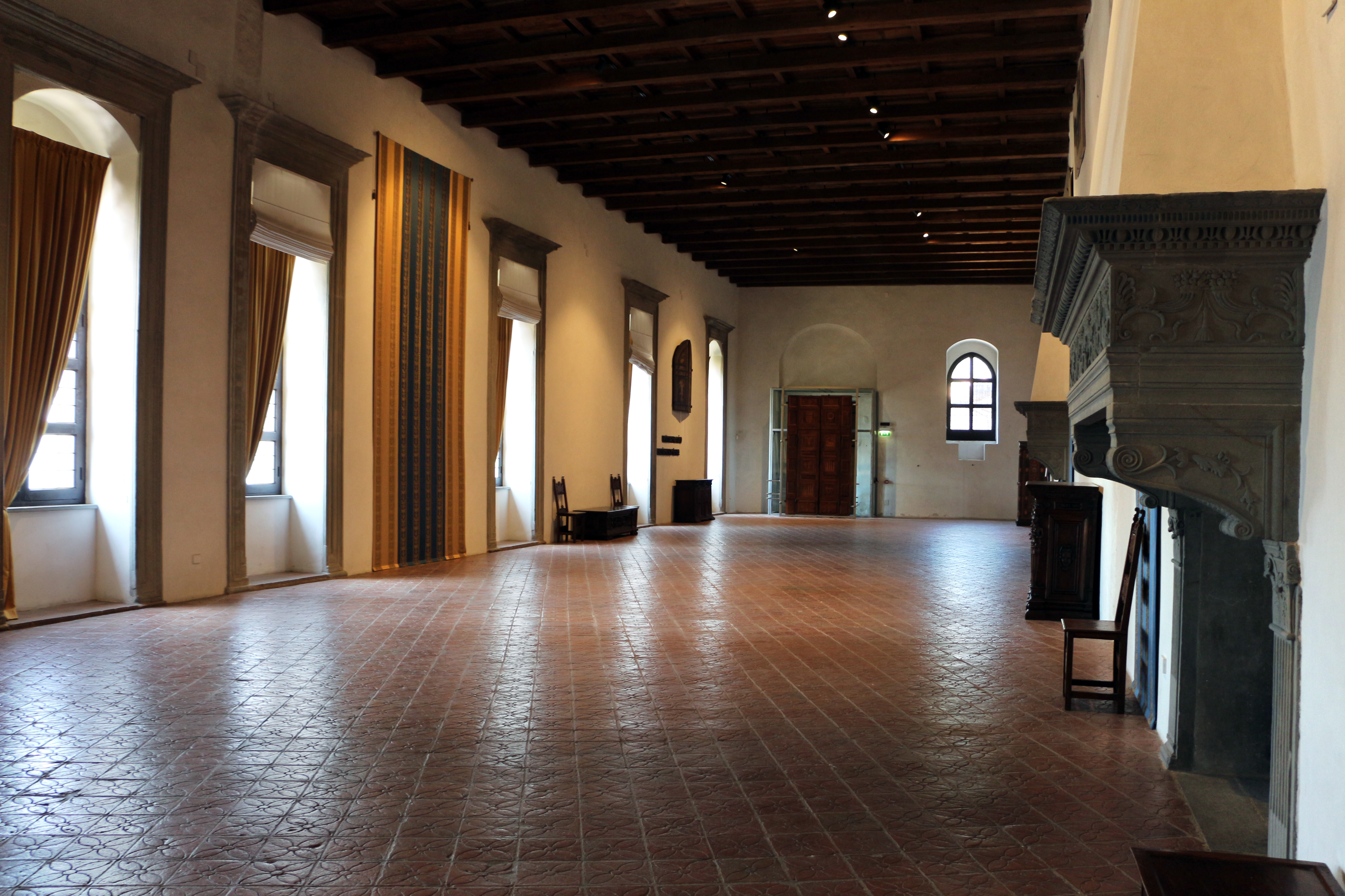 Palazzo Ducale (Gubbio)